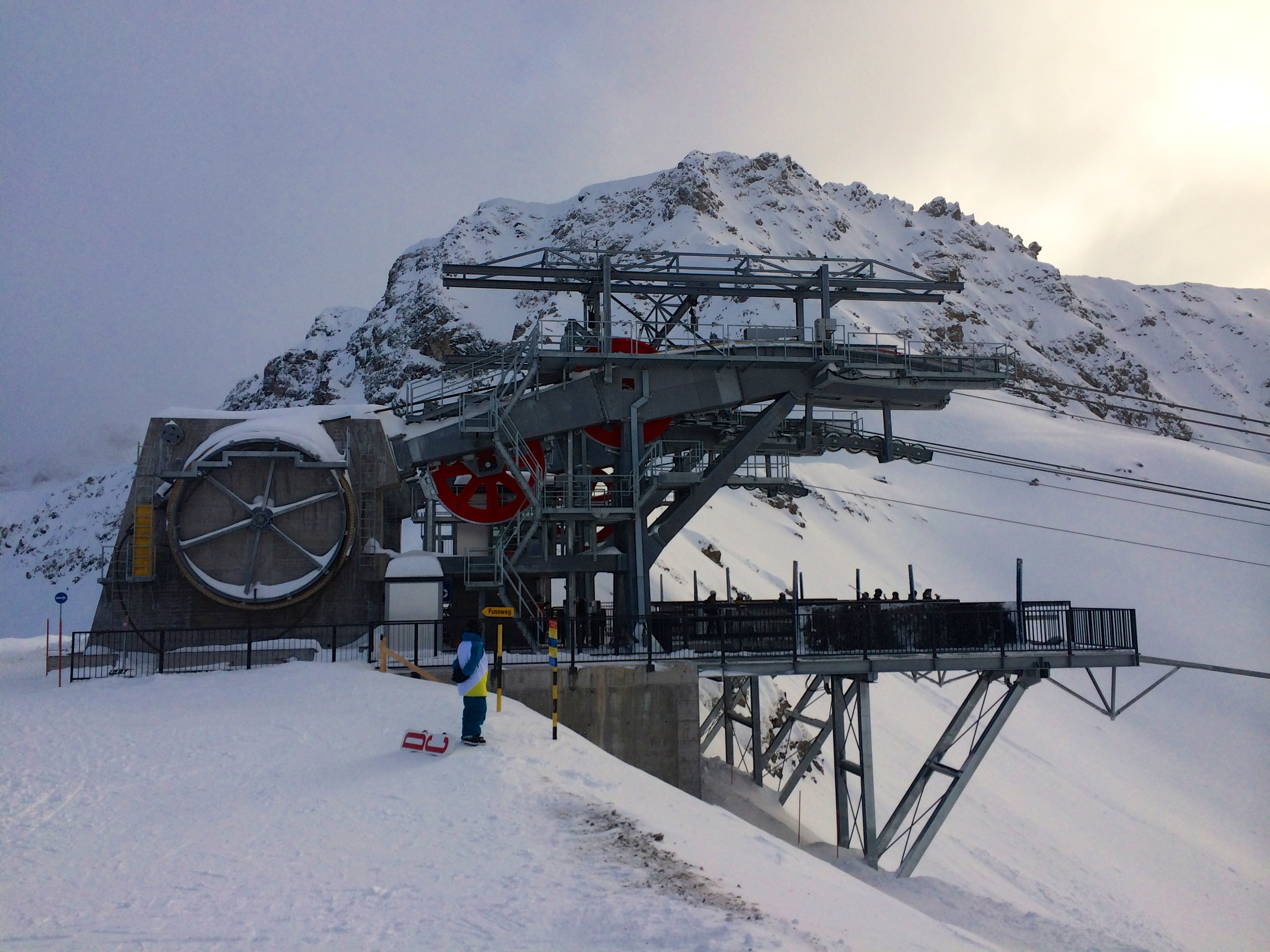 Aerial lift "Urdenbahn" at Arosa/Switzerland